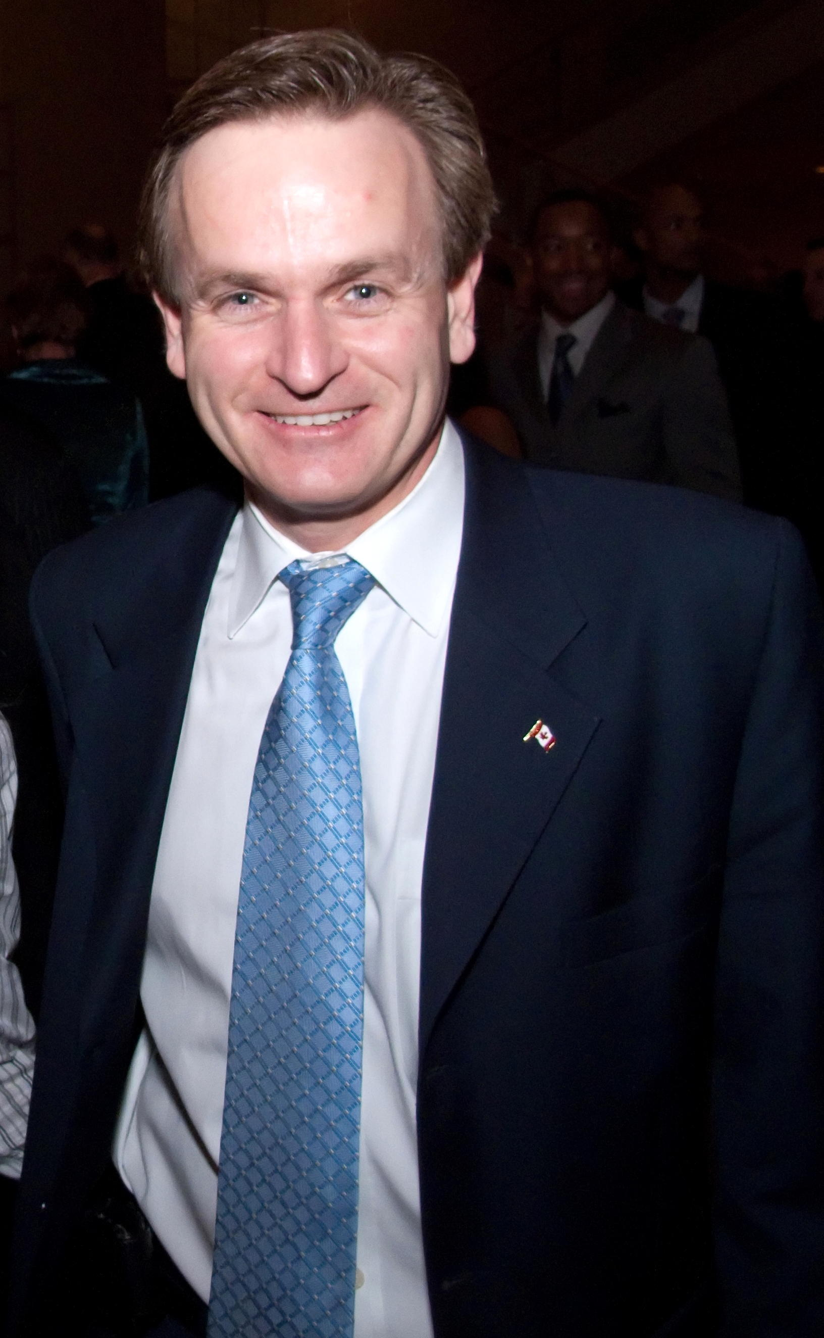 Andrew Saxton, the current member of Parliament for North Vancouver, was elected into office in 2008.